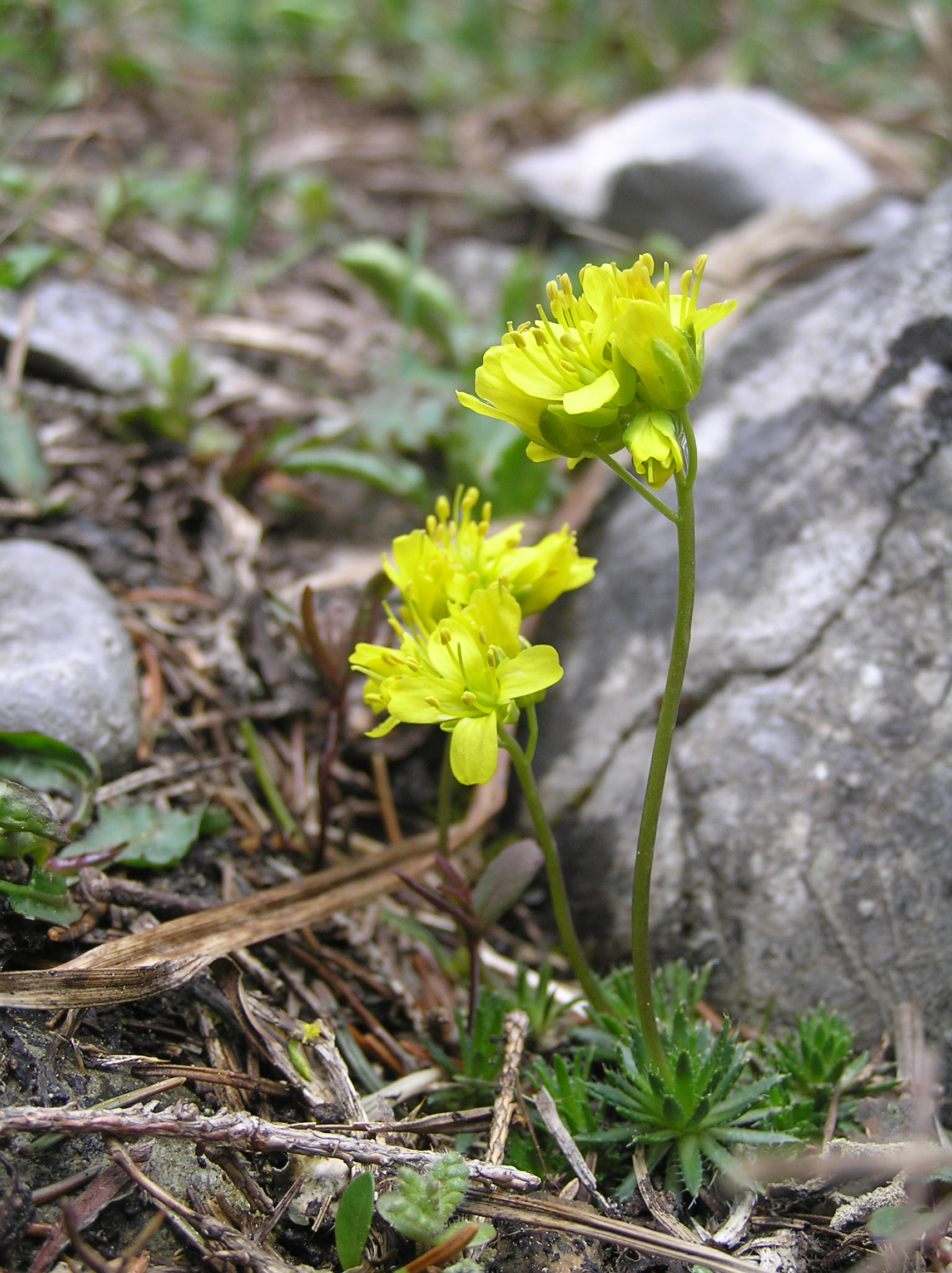 Draba aizoides, Austria, Alps, the mountain Schneeberg near Wiener Neustadt